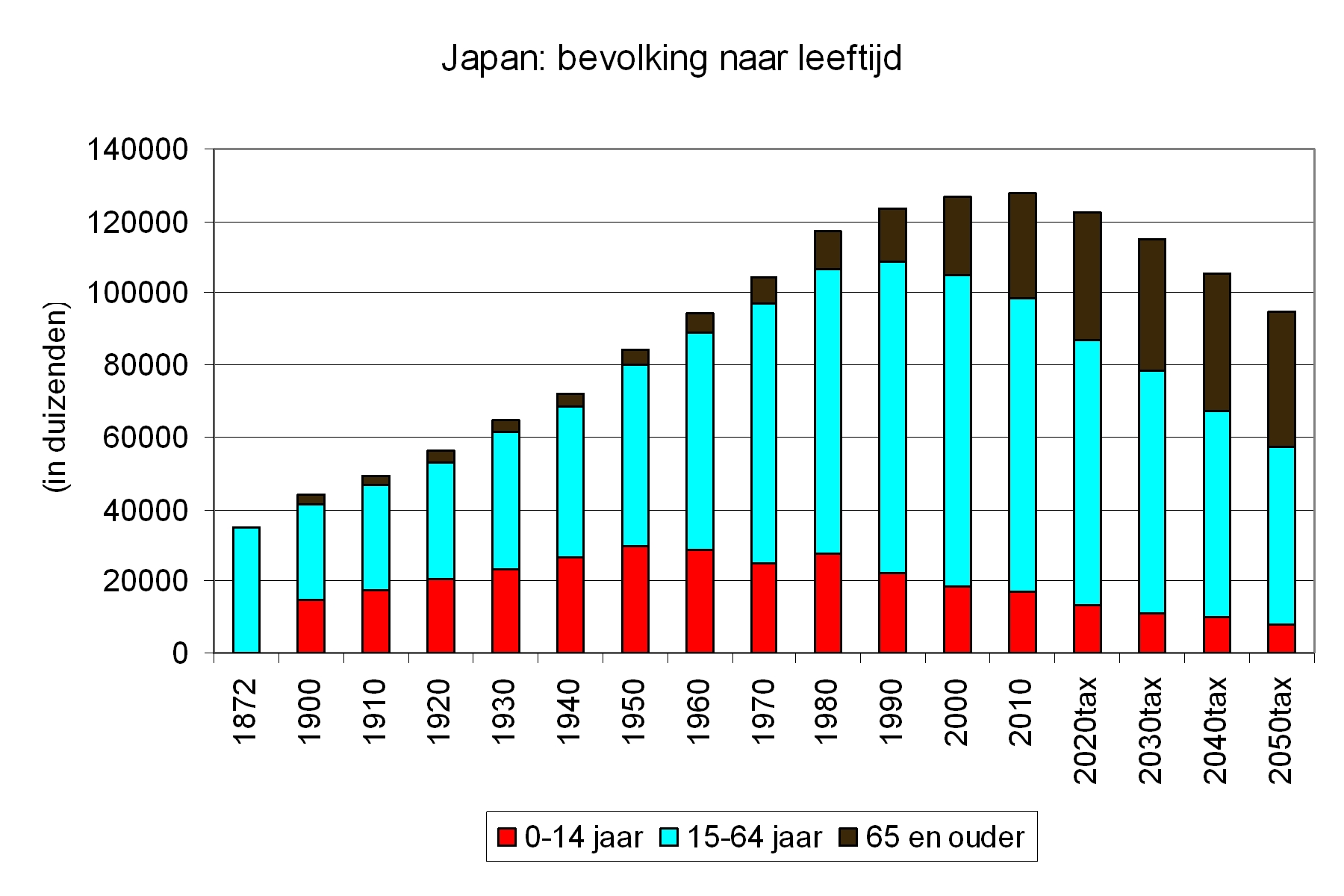 Japan's population (1872-2050) (est). Total and composition population to age category. Source: The Statistical Handbook of Japan 2011 by Statistics Bureau, Japan(